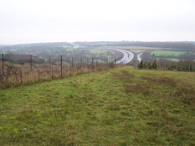 Twyford Down View from Twyford Down, the M3 can be seen.